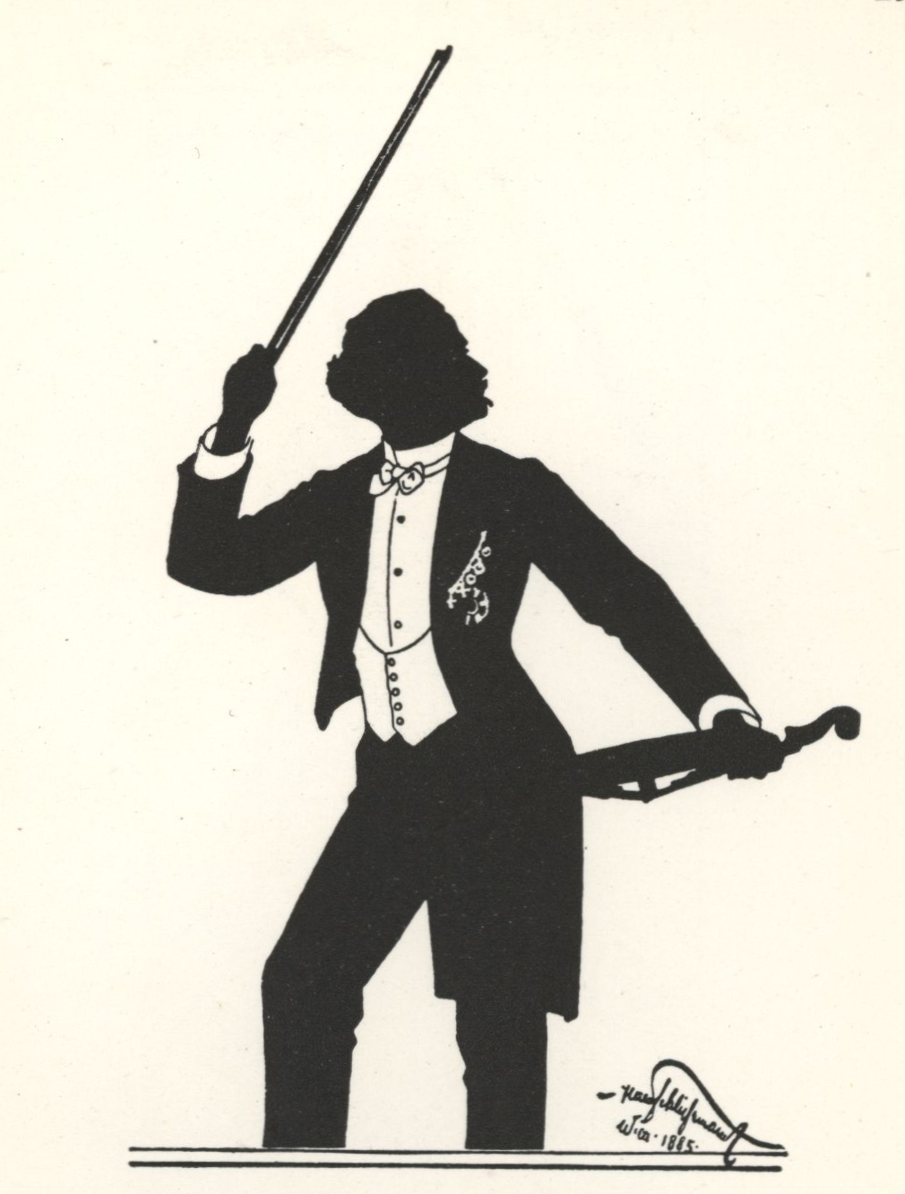 Eduard Strauss (1835–1916), Austrian composer and conductor; silhouette by Hans Schliessmann.